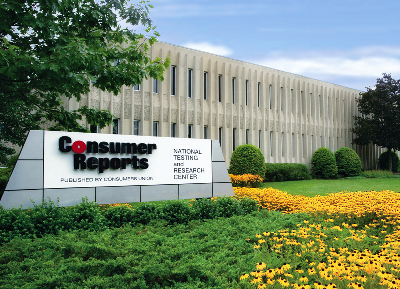 Color fixes from File:Consumer Reports - headquarters in Yonkers New York.tif.